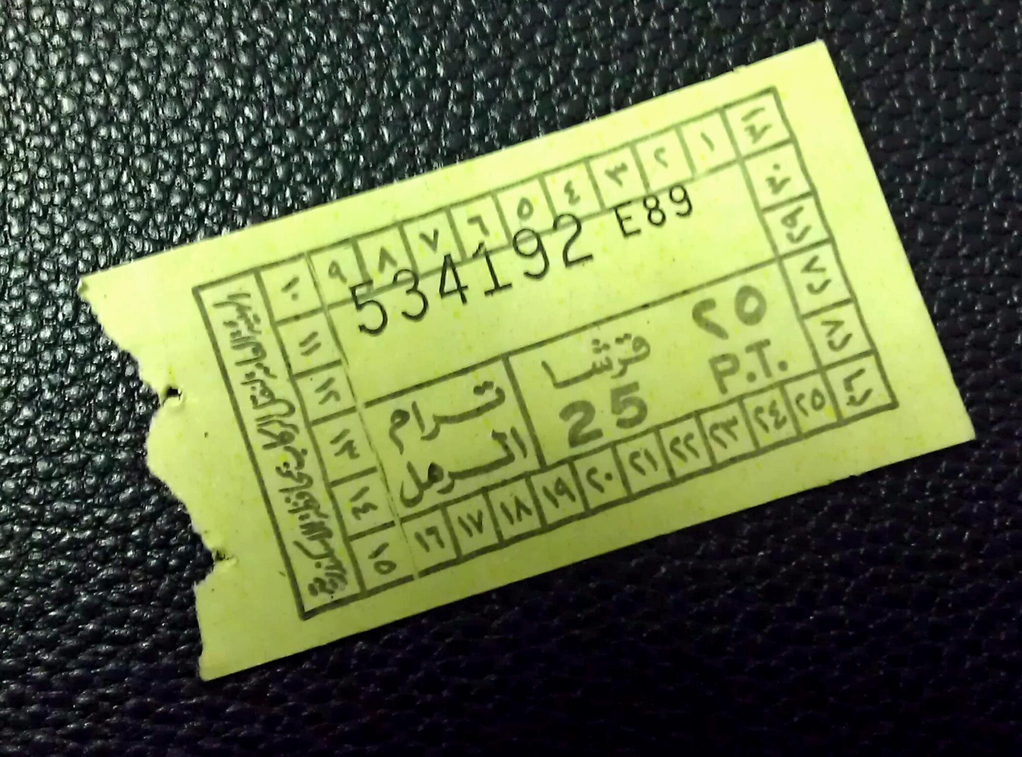 Typical ticket issued on Alexandria trams for a single journey - cost 25pst